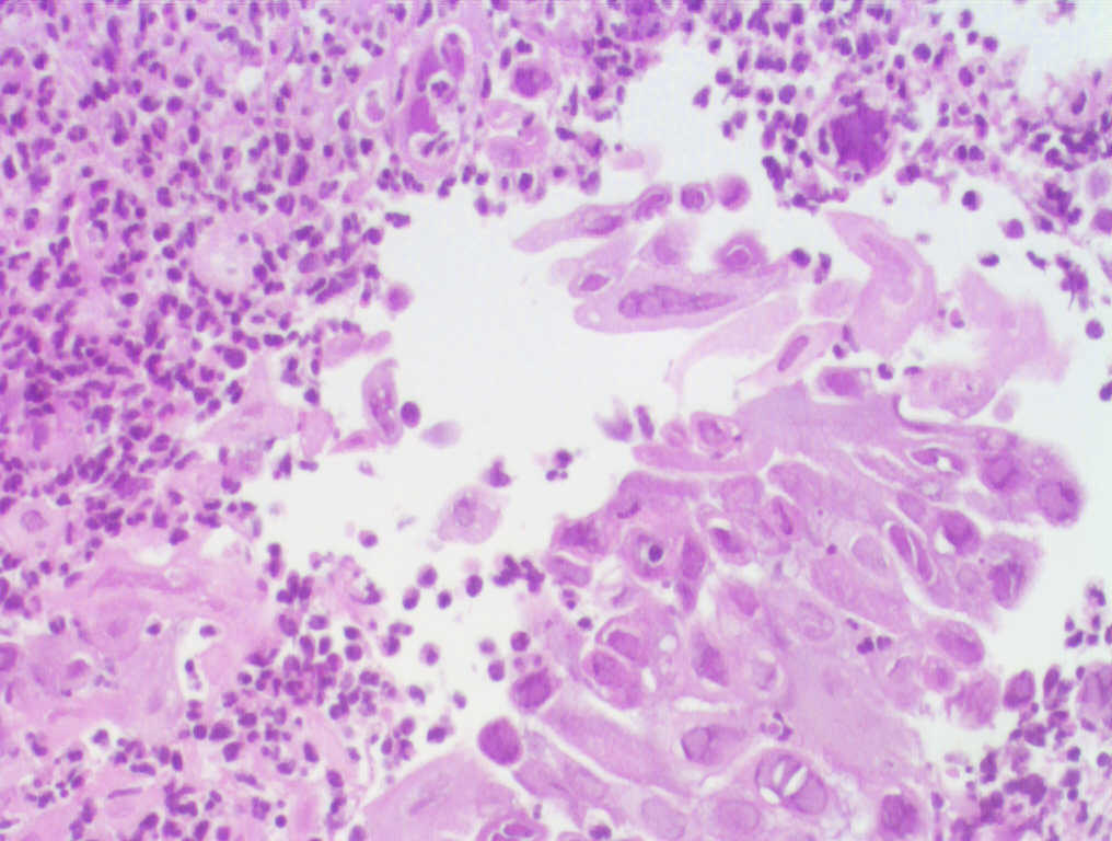 Esophagus, endoscopic biopsy. Cytopatic affect on a group of squamous epithelial cells embedded into exudate (morphologically suggestive for Herpes virus). H&E 200x